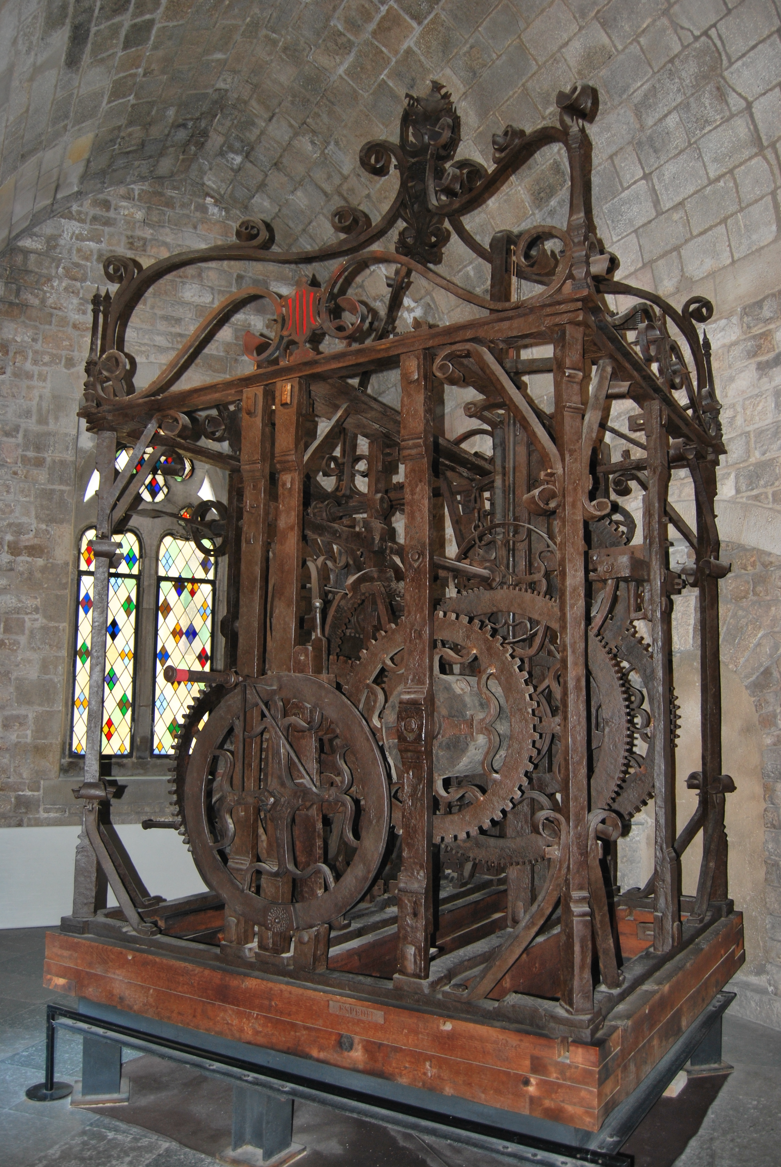 Clock bell tower barcelona cathedral 1576 MUHBA